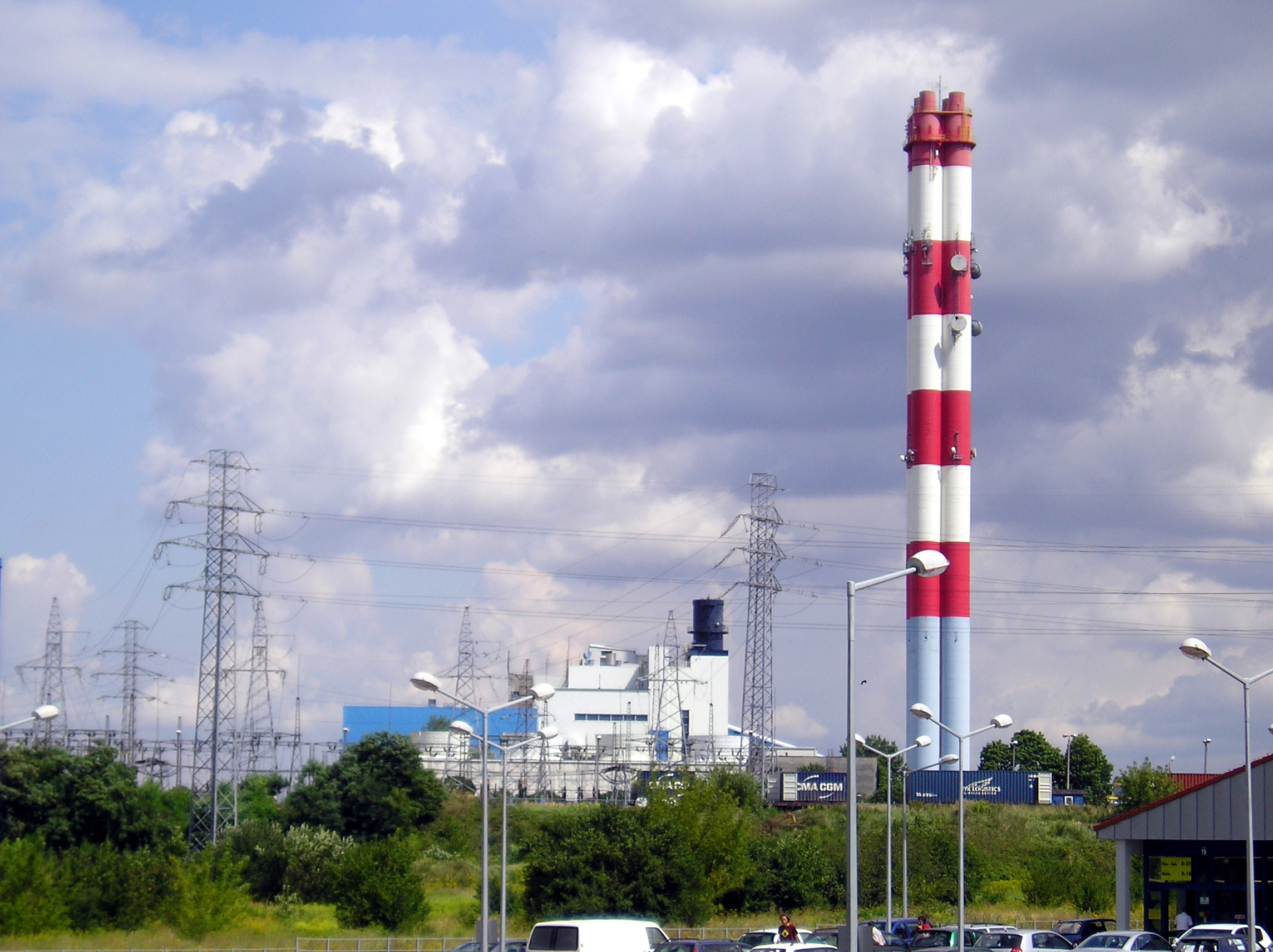 Thermal-electric Power Plant Lublin-Wrotków at the Inżynierska Street - view from the Diamentowa Street, (near the Lidl shop)